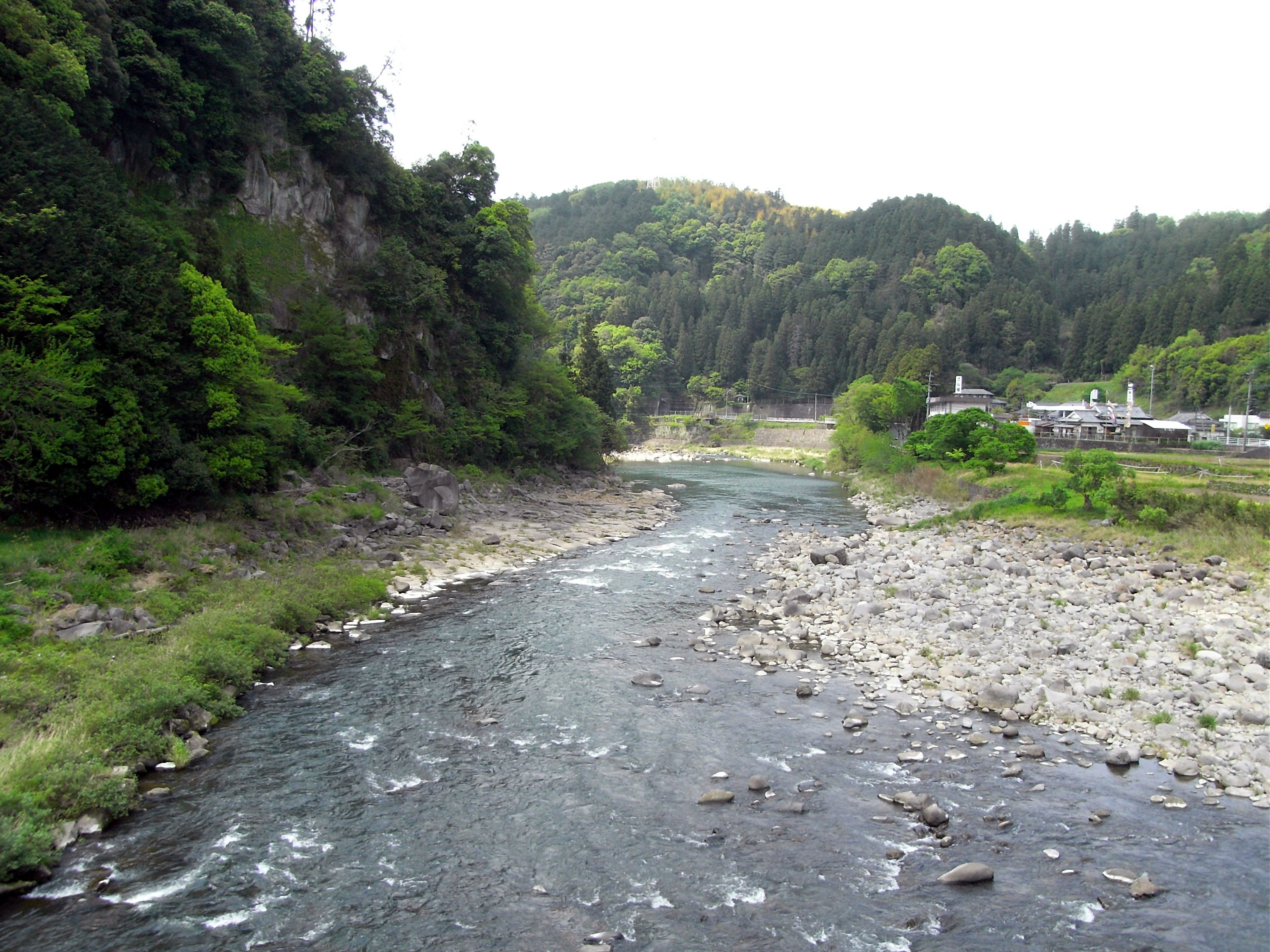 Kusugawa river(Oita pref./Japan)